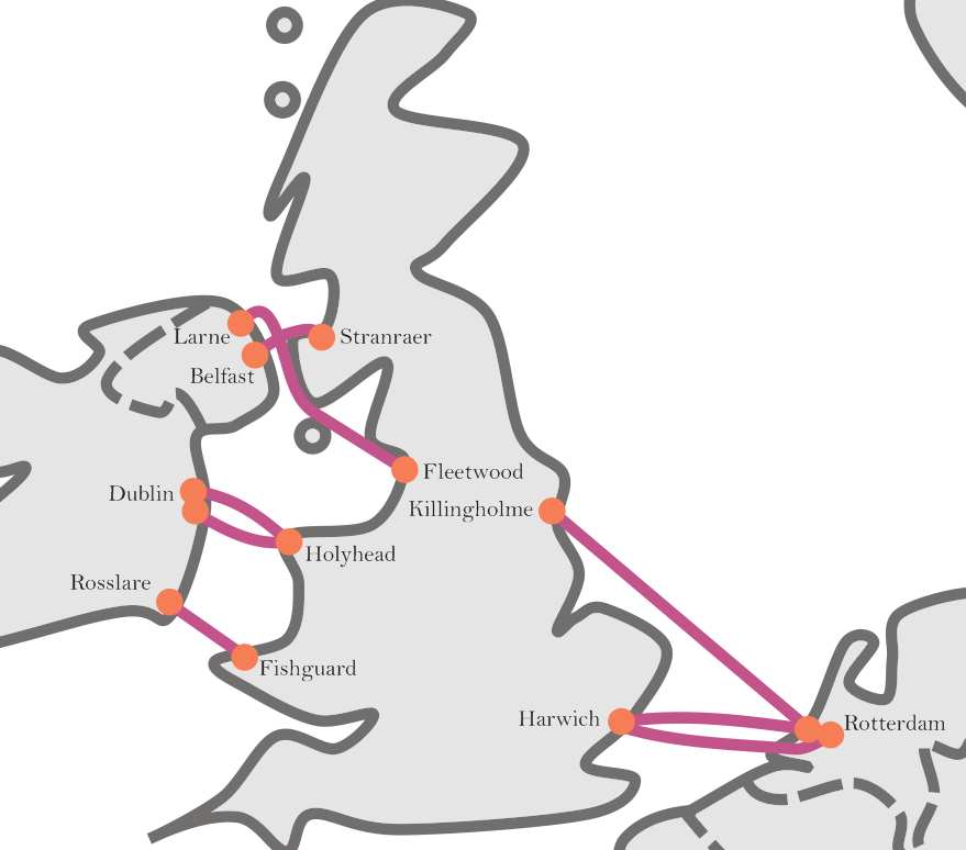 Map of the Stena Line ferries in Ireland, the UK and the Netherlands.